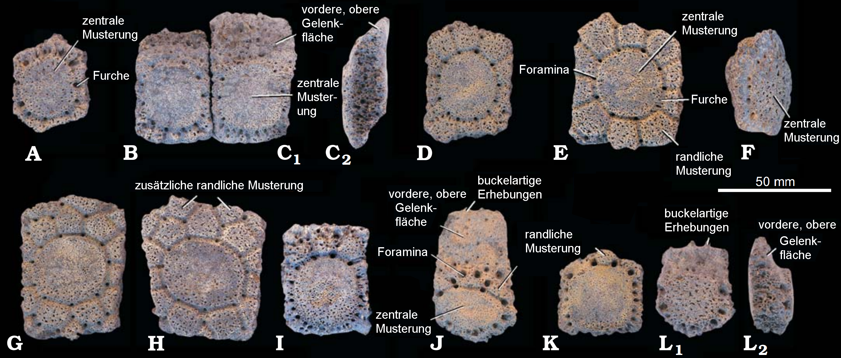 Propalaehoplophorus, Osteoderms of Palaehoplophorus meridionalis (MPM-PV 17410); Anterior region: fixed (A), semi-movable (B), movable (C); Middle region: fixed (D, E); lateral margin (F); Posterior region: fixed (G, H); posterior margin (I); Caudal rings: movable (J), fixed (K); Indeterminated region: semi-movable (L). Osteoderms in lateral view (C2, L2); Meseta de Guenguel, Patagonia, Río Mayo Formation, Santa Creuz Province, Argentina, Middle-Late Miocene